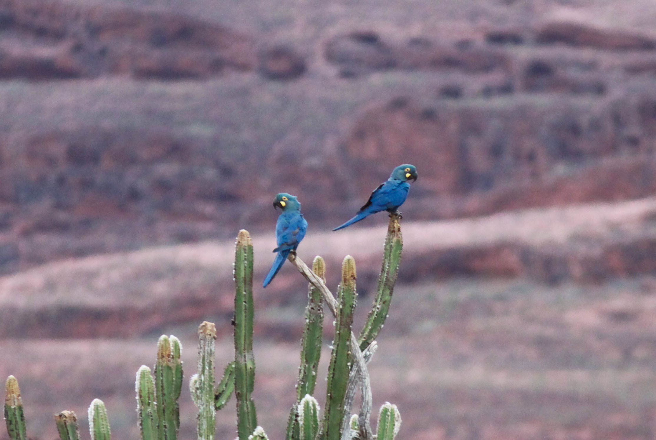 Anodorhynchus leari